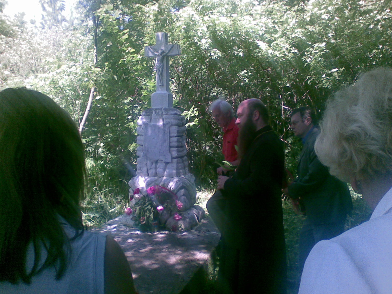 This is a tomb of father Ioan Savjuk. Now the Priest services the requiem for him. Some of the other notable russian-in-Ukraine personalities are present here too.